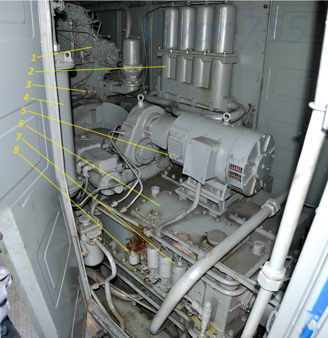 Diesel chamber of russian shunter TGM6. 1 — diesel, 2 — oil filter, 3 — turning gear, 4 — water-to-fuel heater, 5 — aux generator, 6 — UGP (hydraulic transmission)